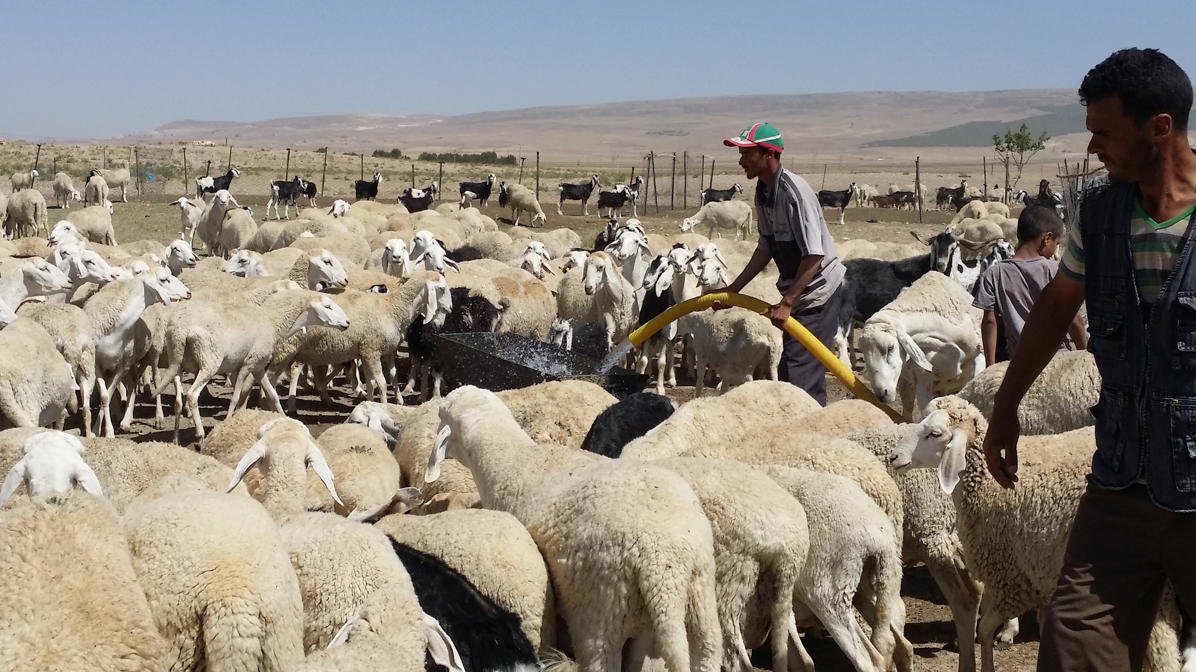 livestock